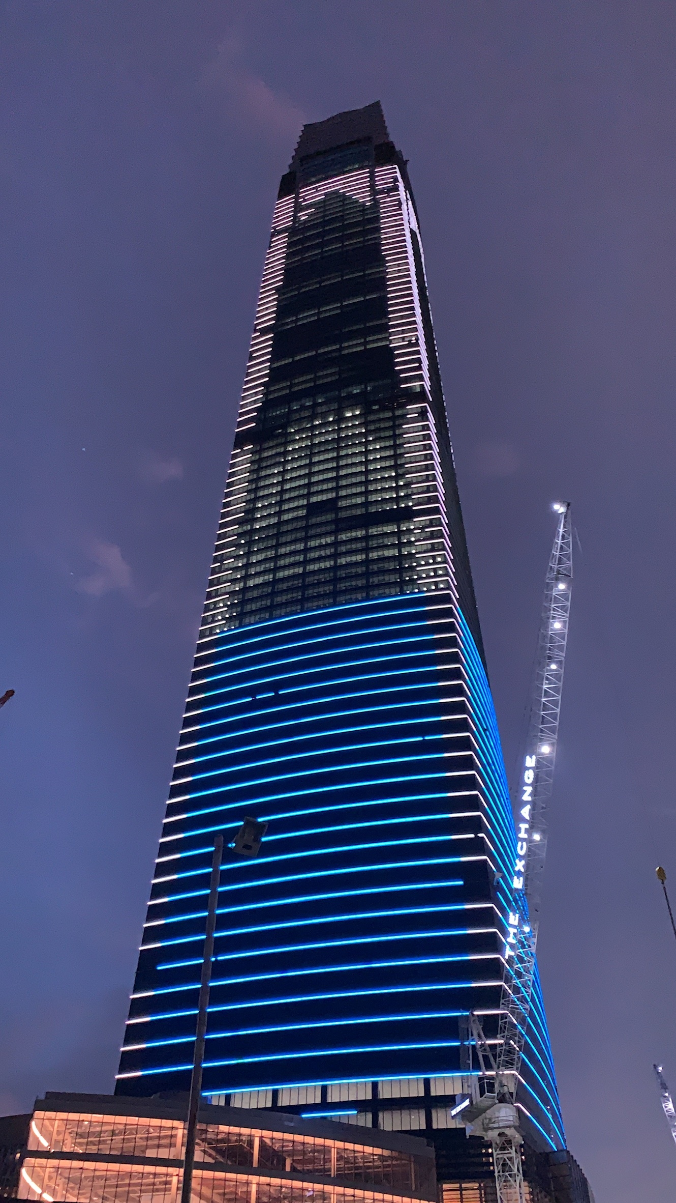 This is the Exchange 106, under construction in Kuala Lumpur's upcoming financial district, Tun Razak Exchange (TRX).